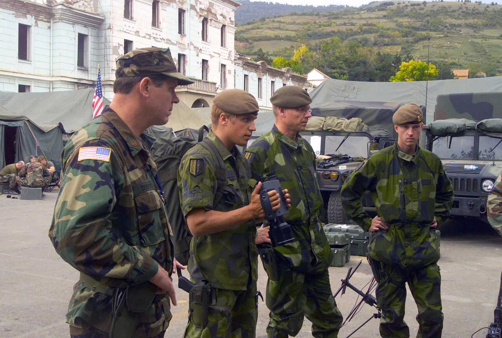 Swedish military soldiers working as a part of the Multinational Brigade South, studies a display of gear used by the Marine Liaison Element (MLE), 24th Marine Expeditionary Unit (MEU) as the Marines of the MLE explain the gear in Prizren, Kosovo during Operation DYNAMIC RESPONSE 2002.